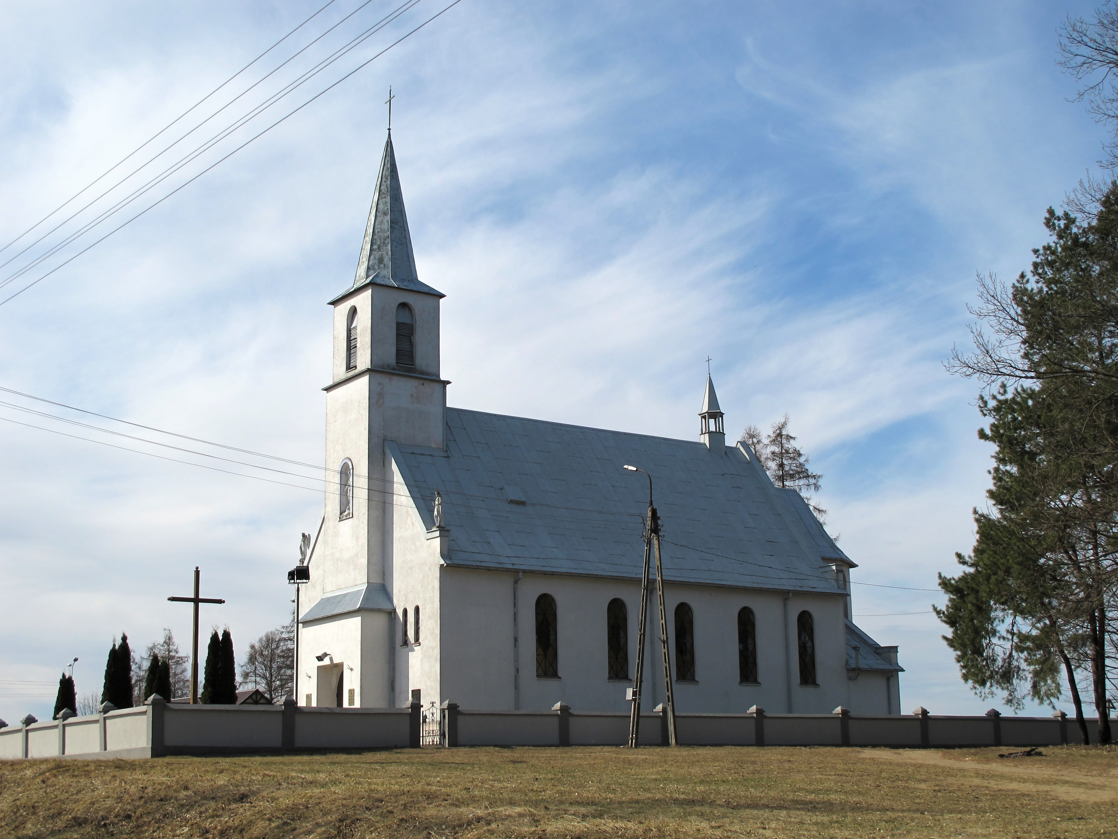 Immaculate Conception of BVM church in Tryczówka, gmina Juchnowiec Kościelny, podlaskie, Poland